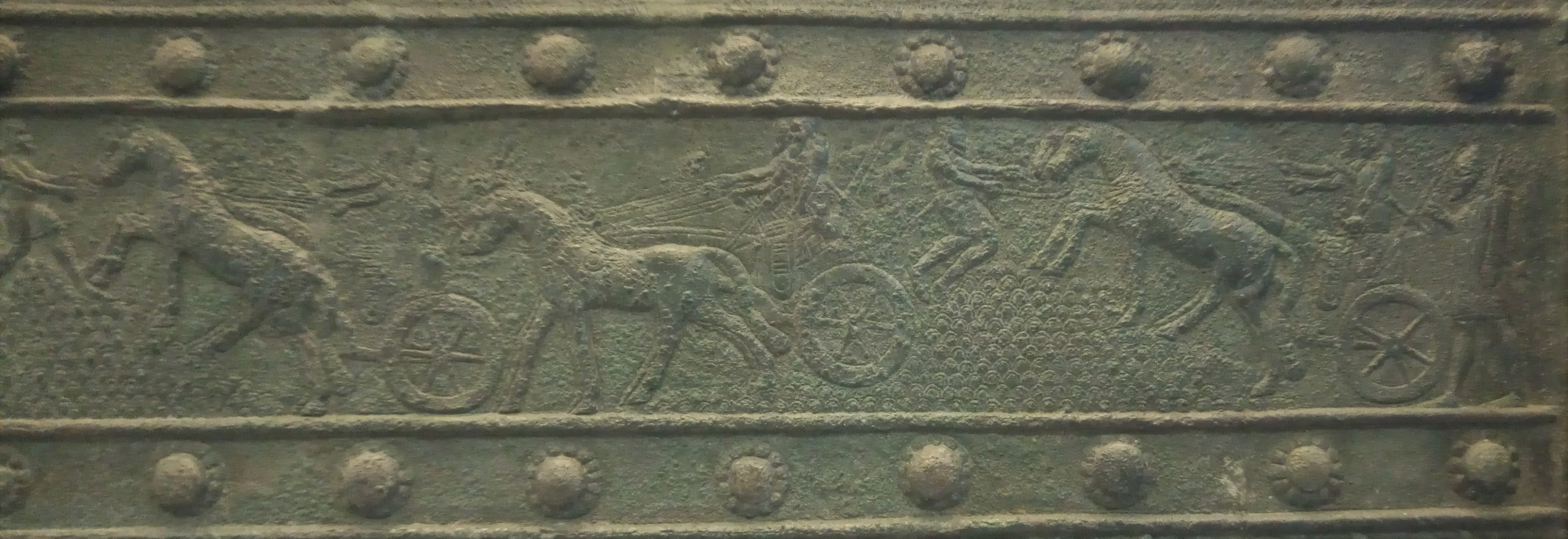 Balawat Gates : assyrian chariots of the royal escort crossing montains, during a campaign against Urartu, c. 858 BC. L. W. King, Bronze reliefs from the gates of Shalmaneser, King of Assyria, B.C. 860-825, London, 1915, plate III, Band I 3.